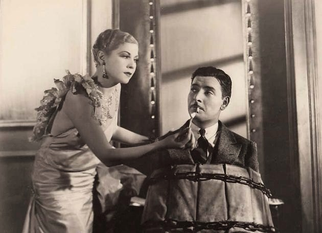 Lilyan Tashman & Ronald Colman in Bulldog Drummond - publicity still (cropped)